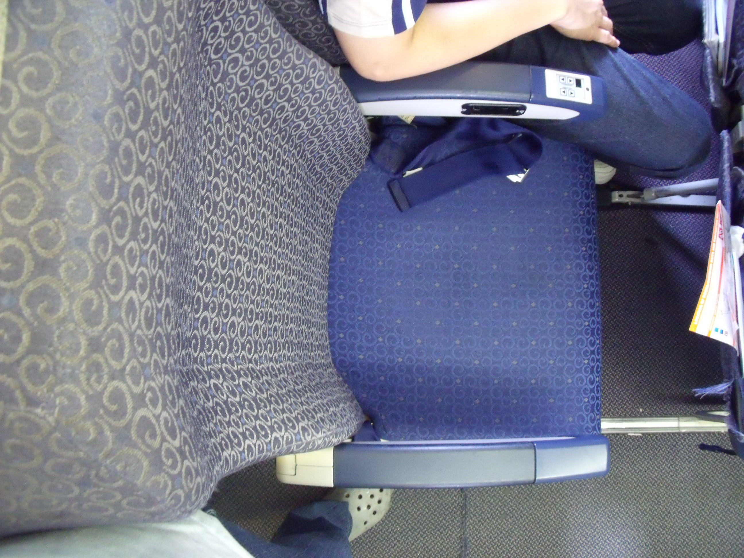 Economy seat on Tiger Airways.